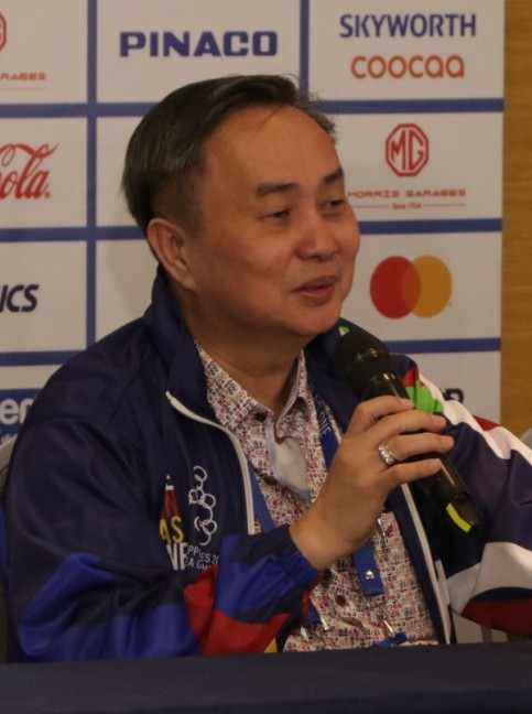 Philippine South East Asian Games Organizing Committee (PHISGOC) Chief Operating Officer Ramon Suzara, Philippine Olympic Committee (POC) President Abraham 'Bambol' Tolentino, Bruce Lim, executive chef of the Southeast Asian Games answer question from the media during a press conference held Wednesday (November 27, 2019) at the World Trade Center, Pasay City.